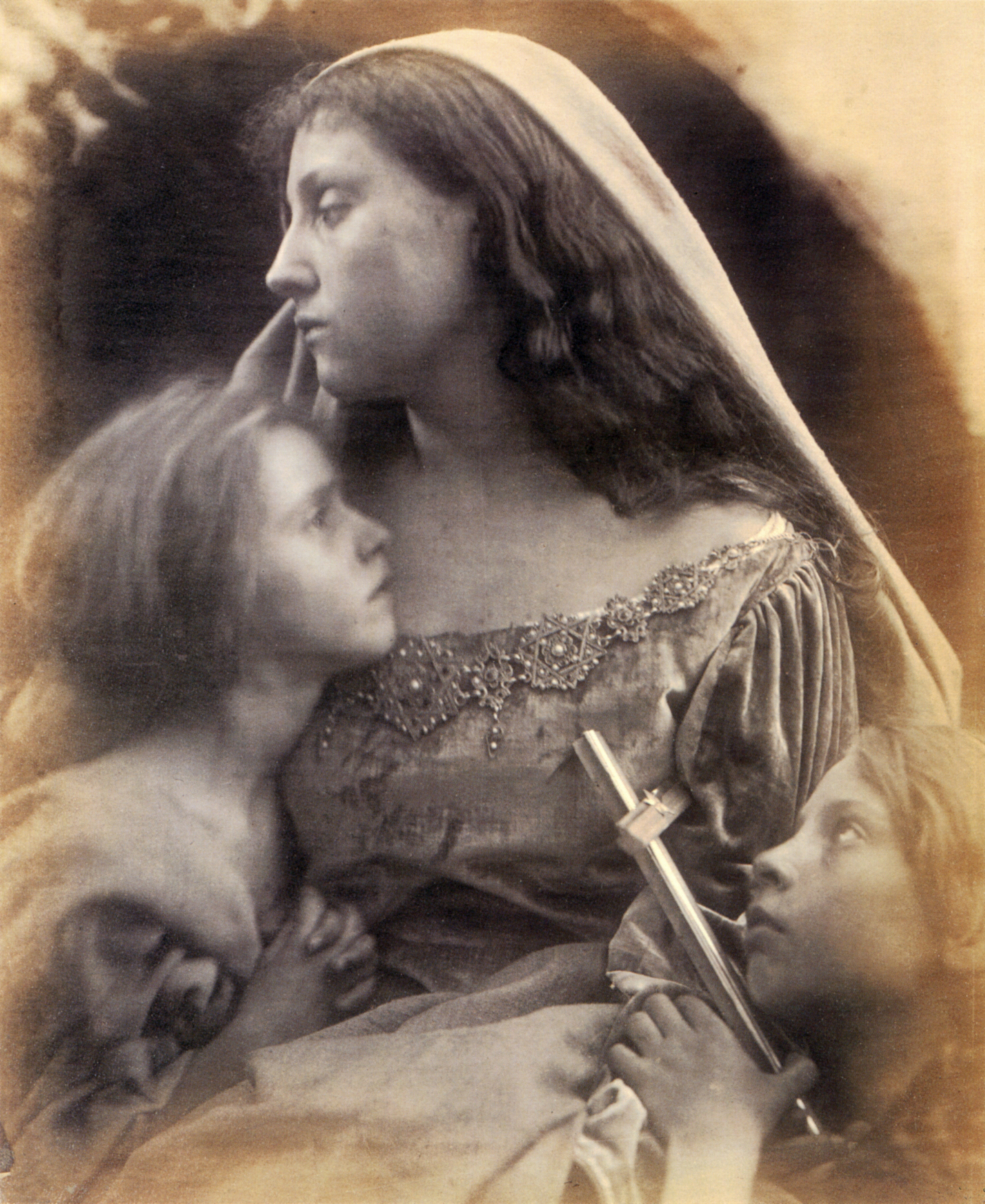 A Holy Family. Rosie Prince (tenative identification), Mary Ann Hillier, and Freddy Gould. Albumen print, 333 x 269mm (13 x 10 5/8").